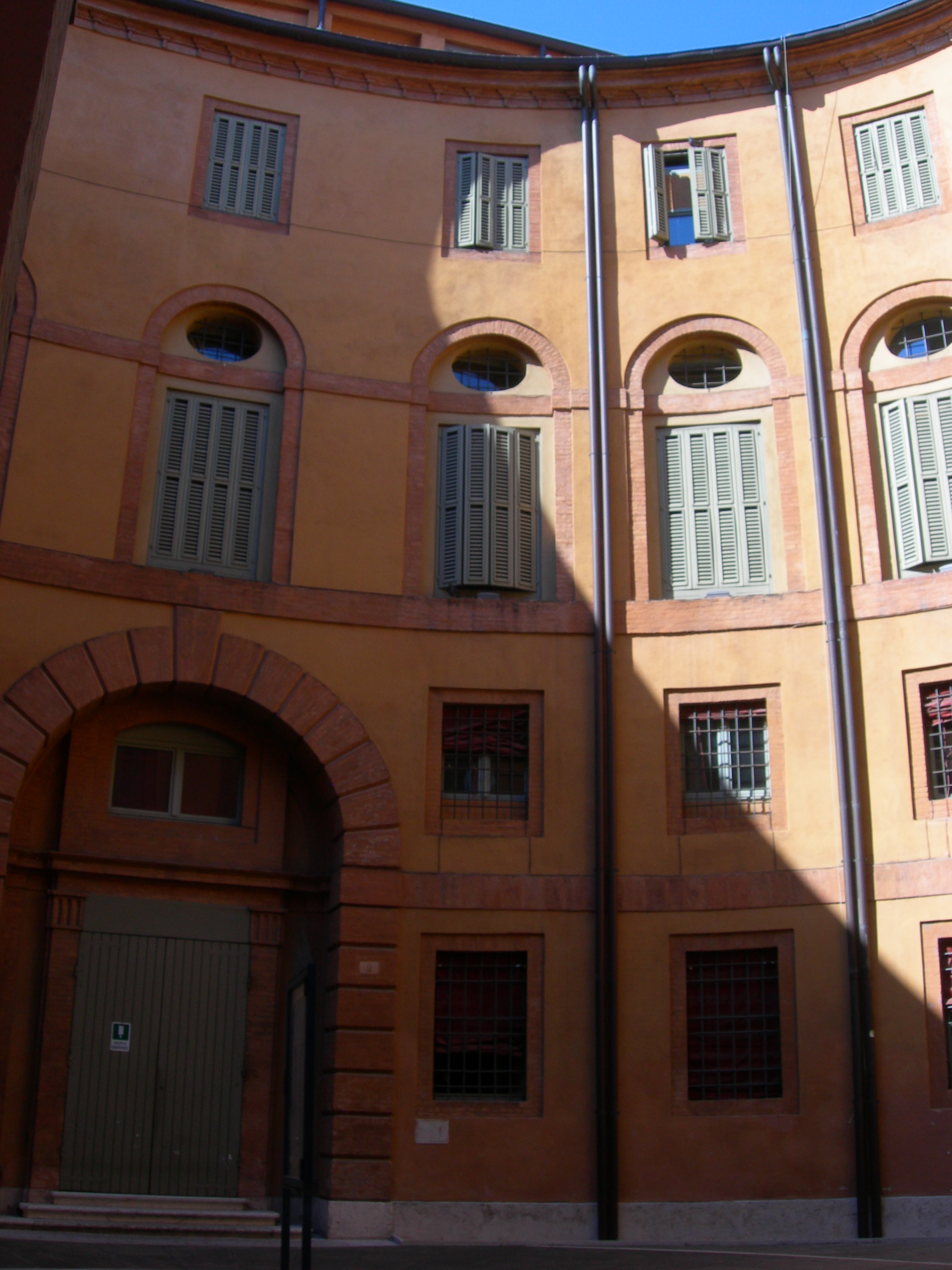 Rotunda Foschini in Ferrara (Italy)